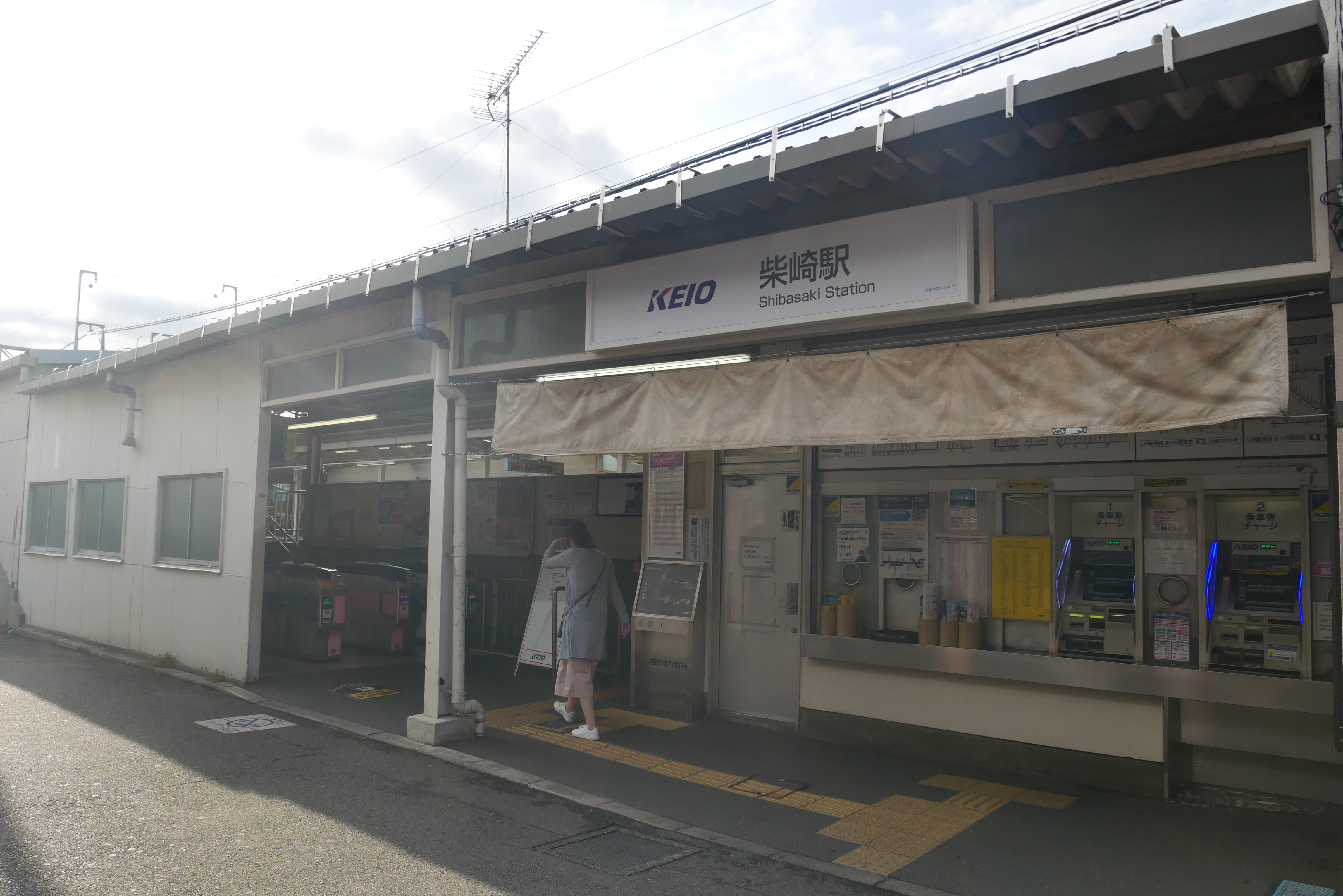 Shibasaki Station south exit (柴崎駅の南口)